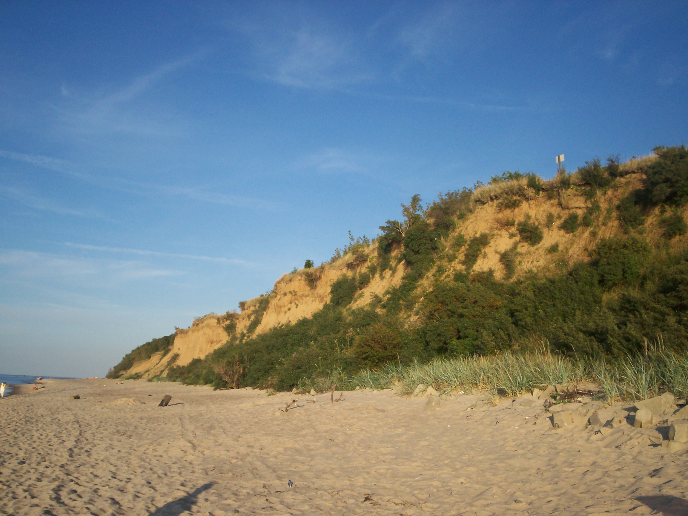 Cliff in Rewal.